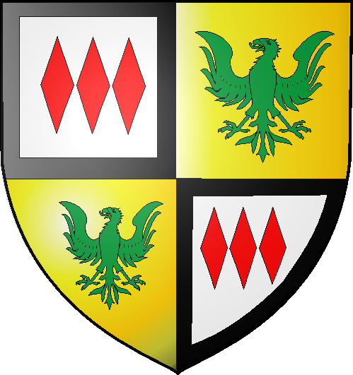 Montagu, Earl of Sandwich CoA